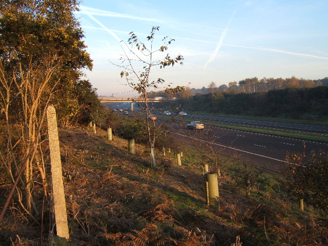 A3 near the American Community School, Cobham. Looking east from the top of the embankment.